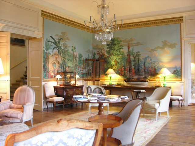 Panoramic wallpaper in the malouiniere of la Ville Bague in Saint-Coulomb (France)